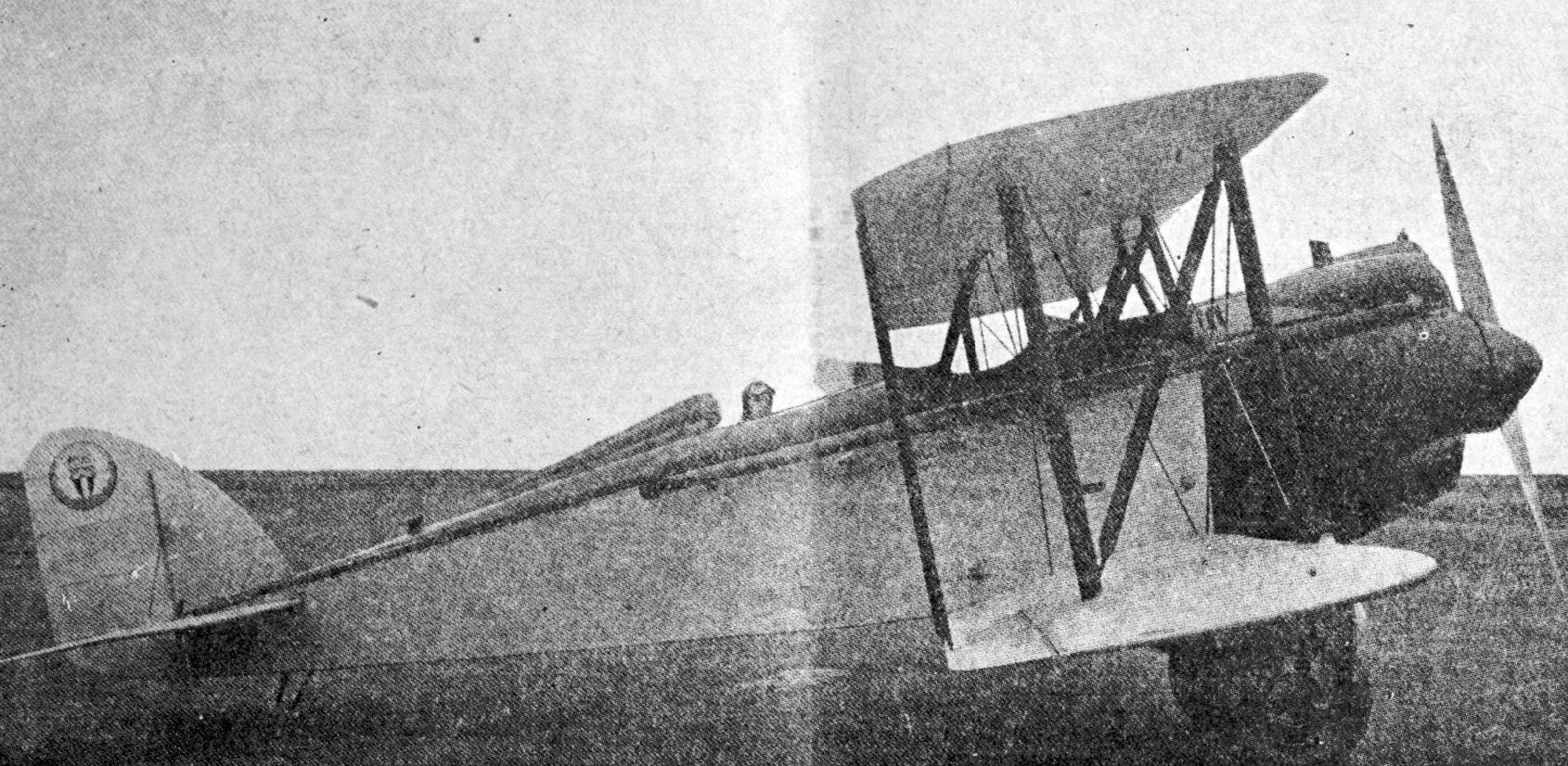 Elias Airmobile photo from L'Air August 1,1927